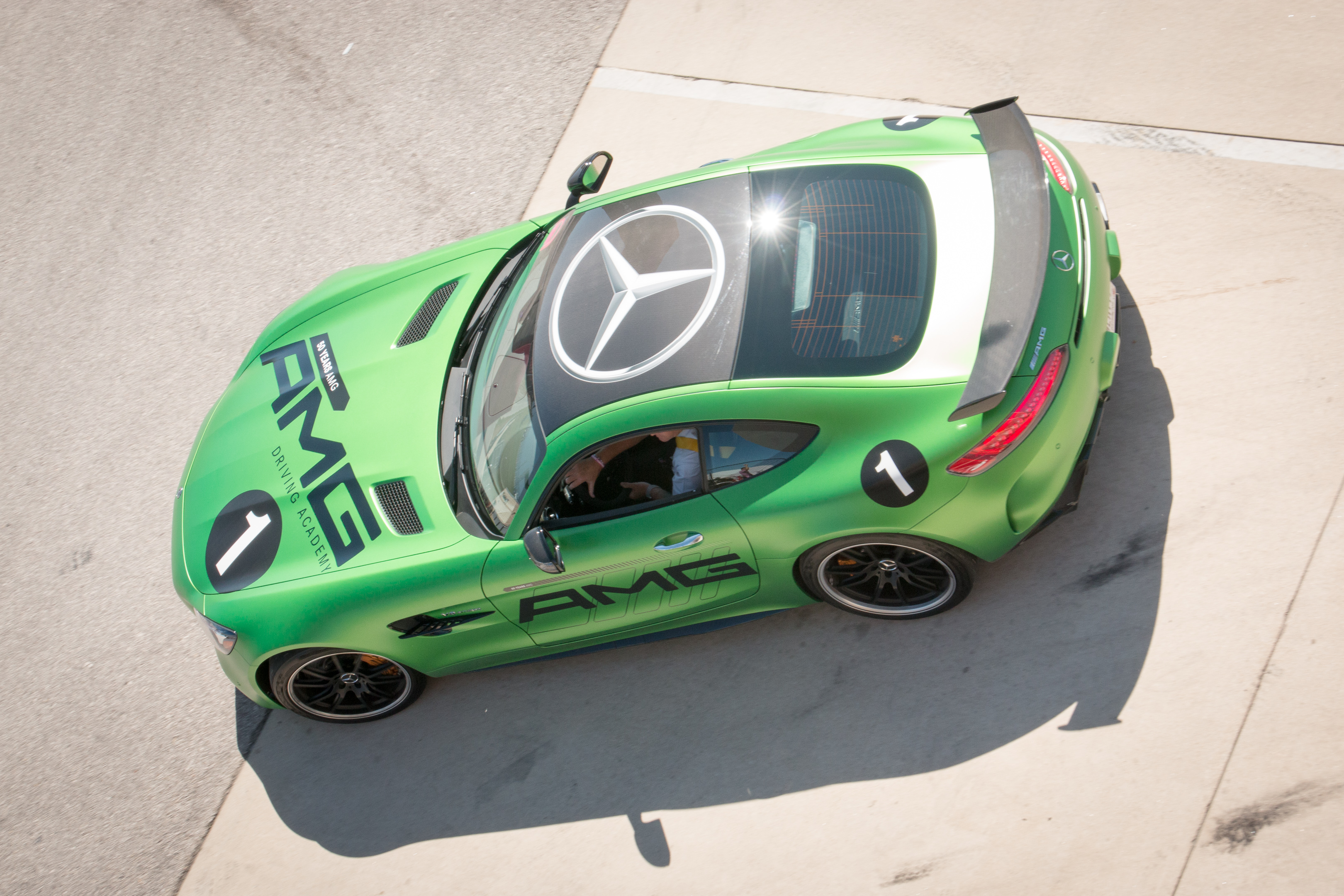 USGP Austin Oct 2017